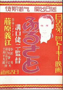 Japanese movie poster for Fujiwara Yoshie no furusato 『藤原義江のふるさと』